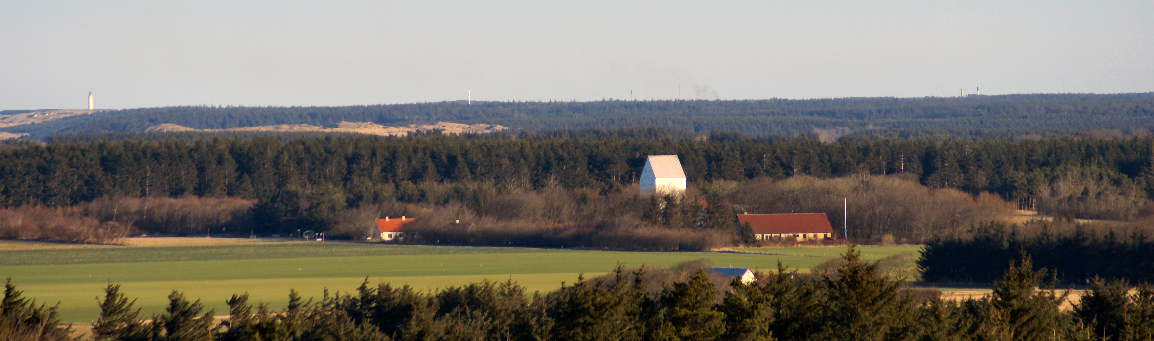 Church of Skallerup, Denmark